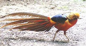 Golden Pheasant, my photo